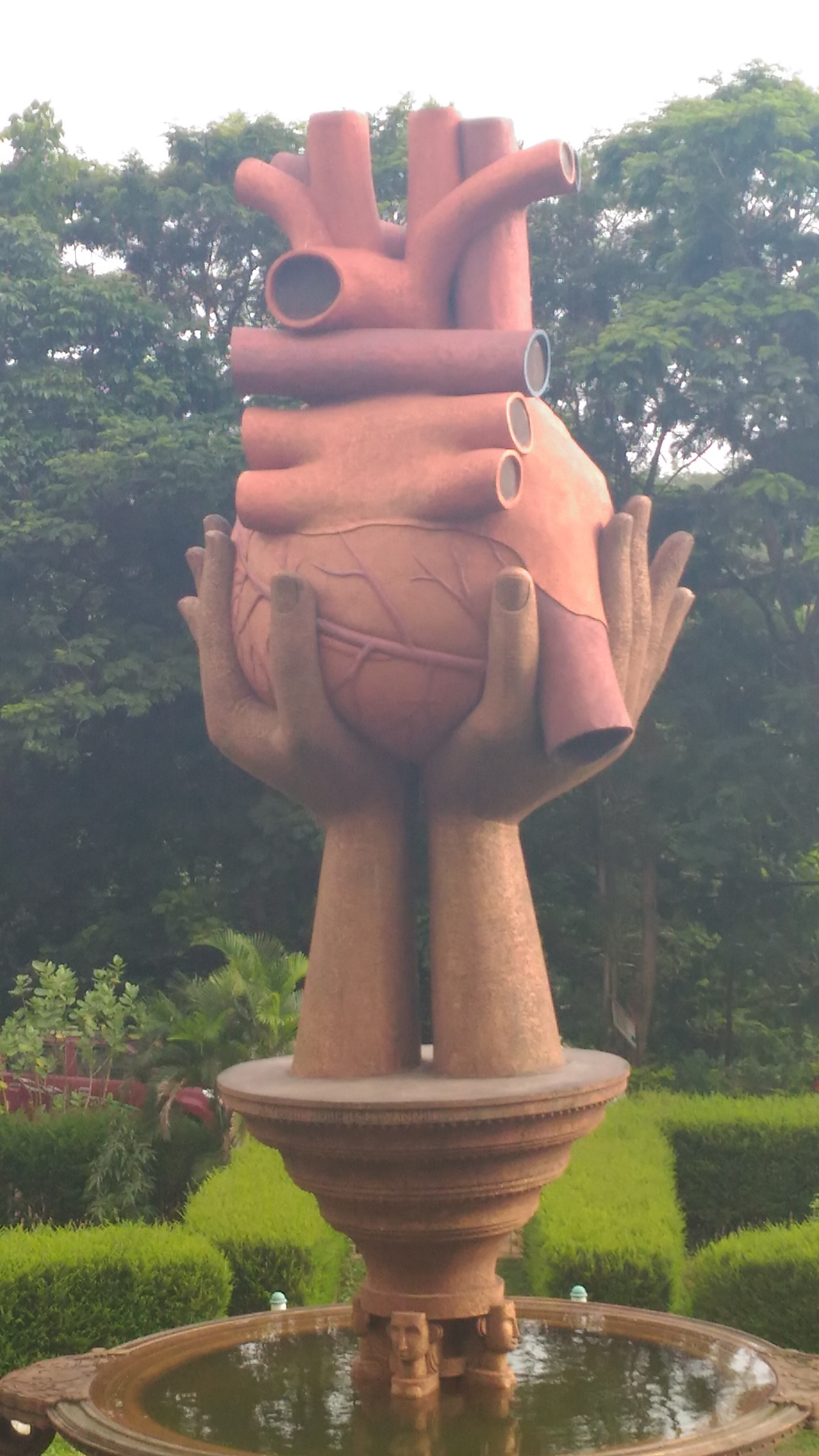 An art_Heart_constructed_Hrudayalaya pariyaram medical college